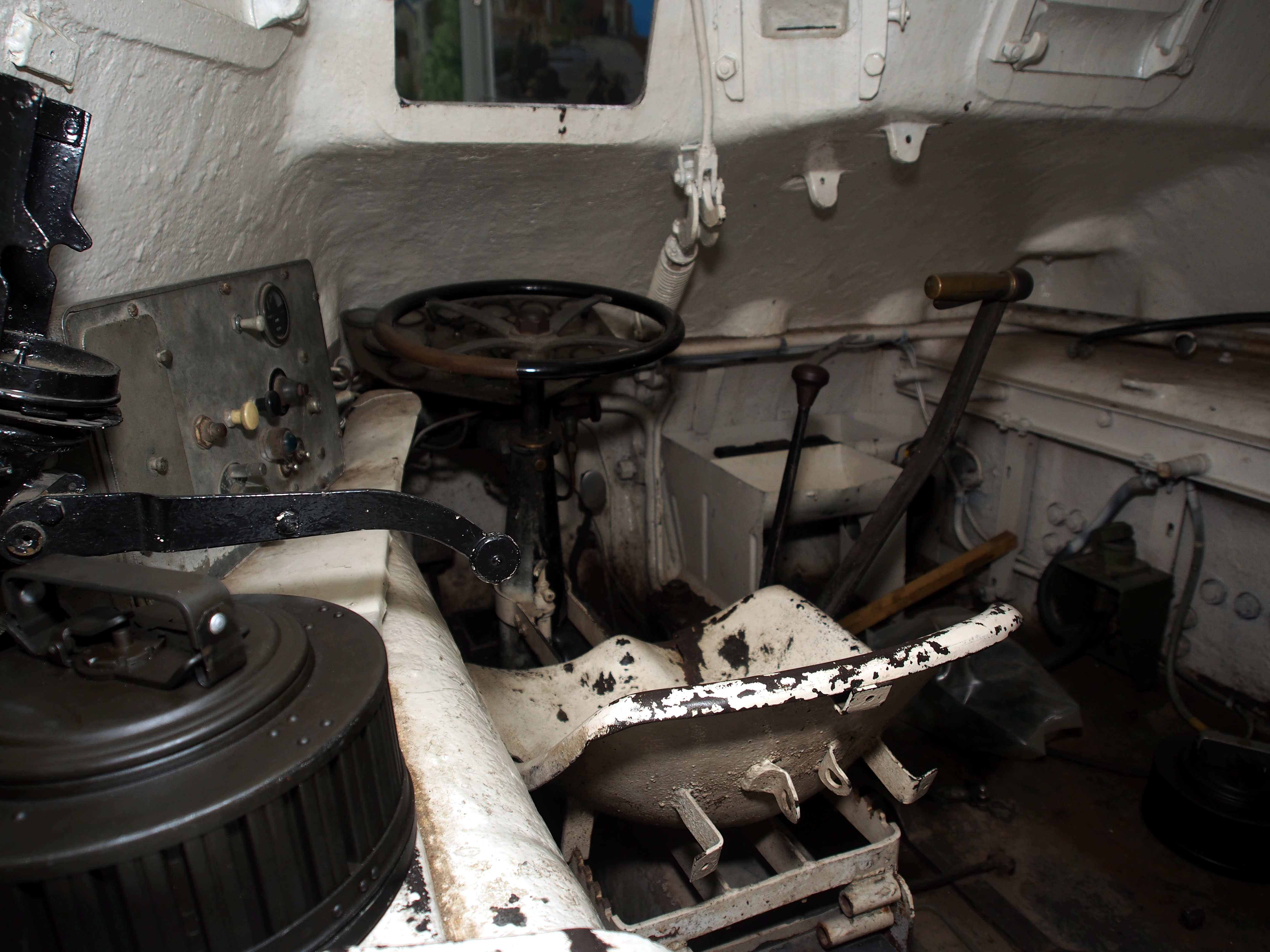 Photographed in the Musée des Blindés, France.